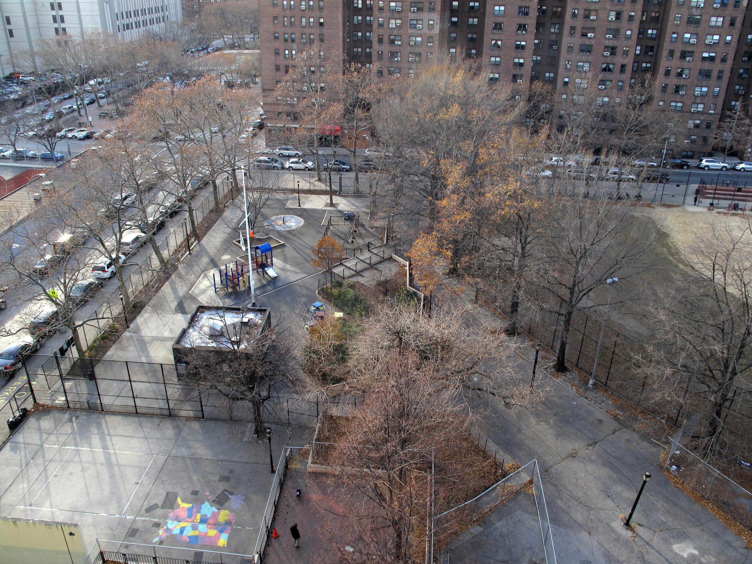 Coleman Playground, Manhattan, NY, from the overpass to the Manhattan Bridge